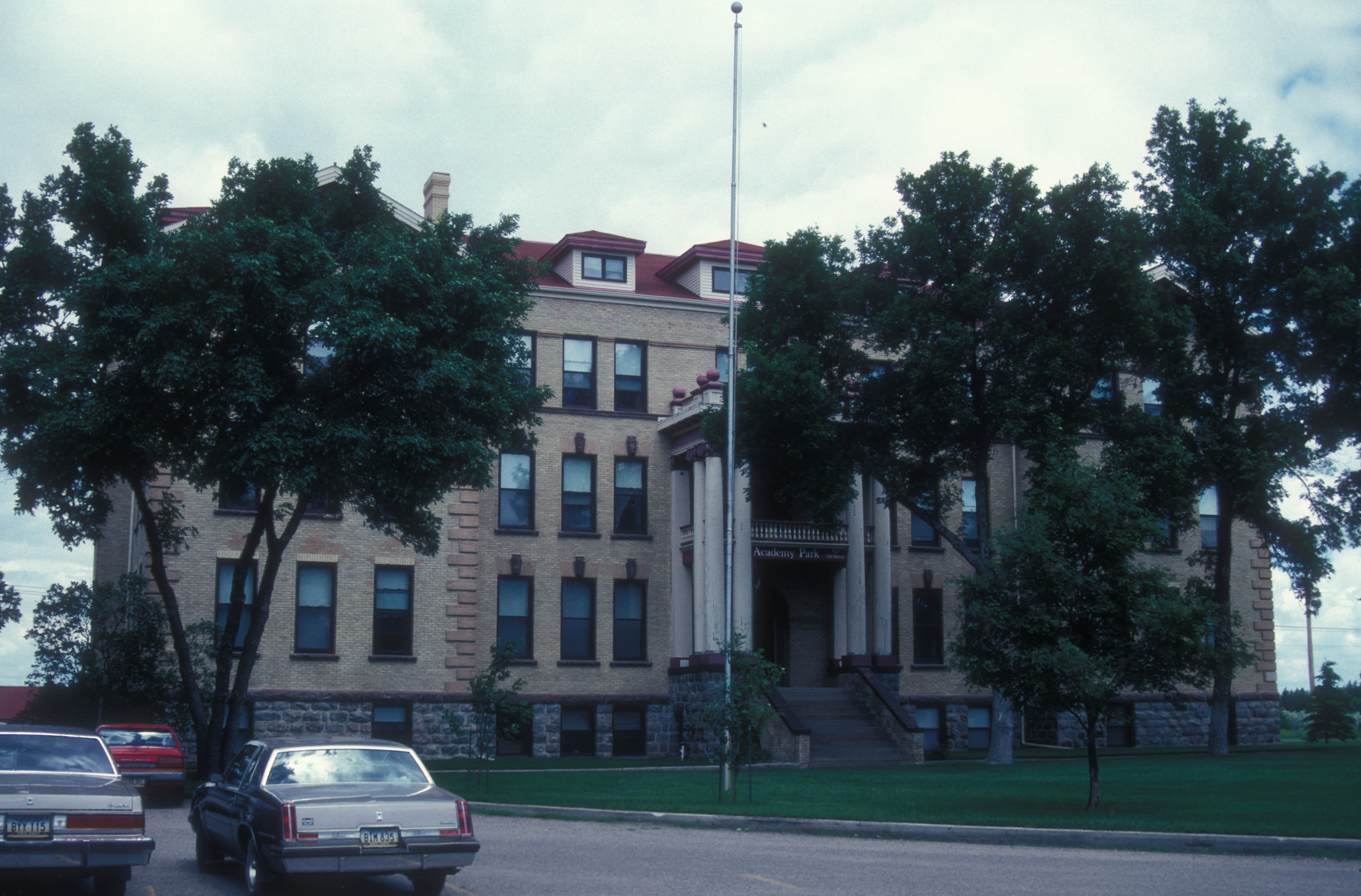 1909 Classical Revival old educational building now turned into apartments.